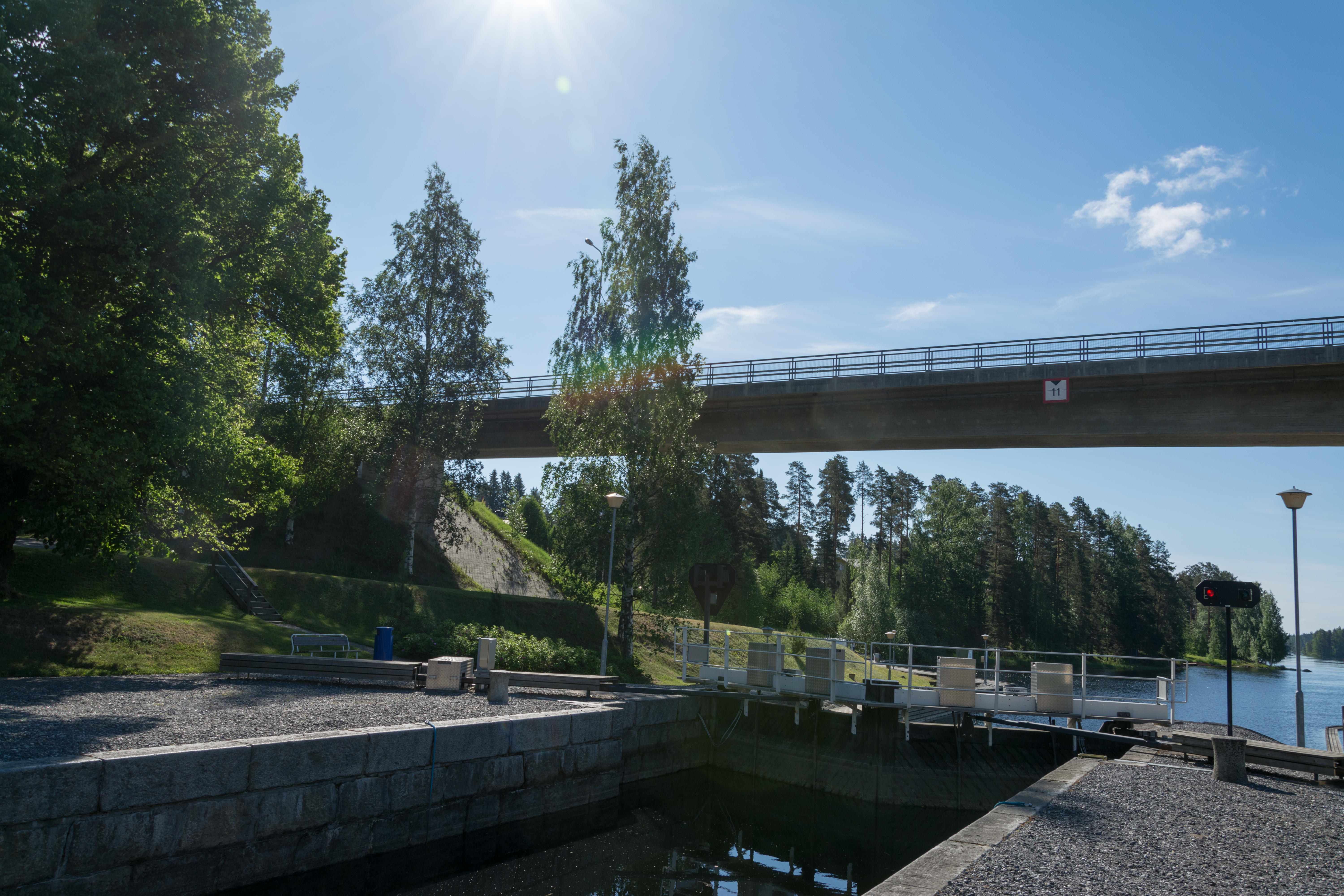 Karvio canal in Heinävesi, Finland.